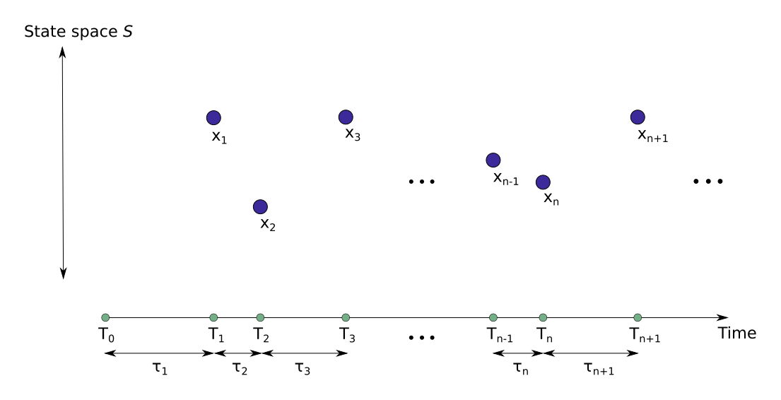 A new drawing inspired by File:Markov renewal process - Depiction.jpg - Note that the drawing does NOT depict only a Markov renewal process, but any marked point process.